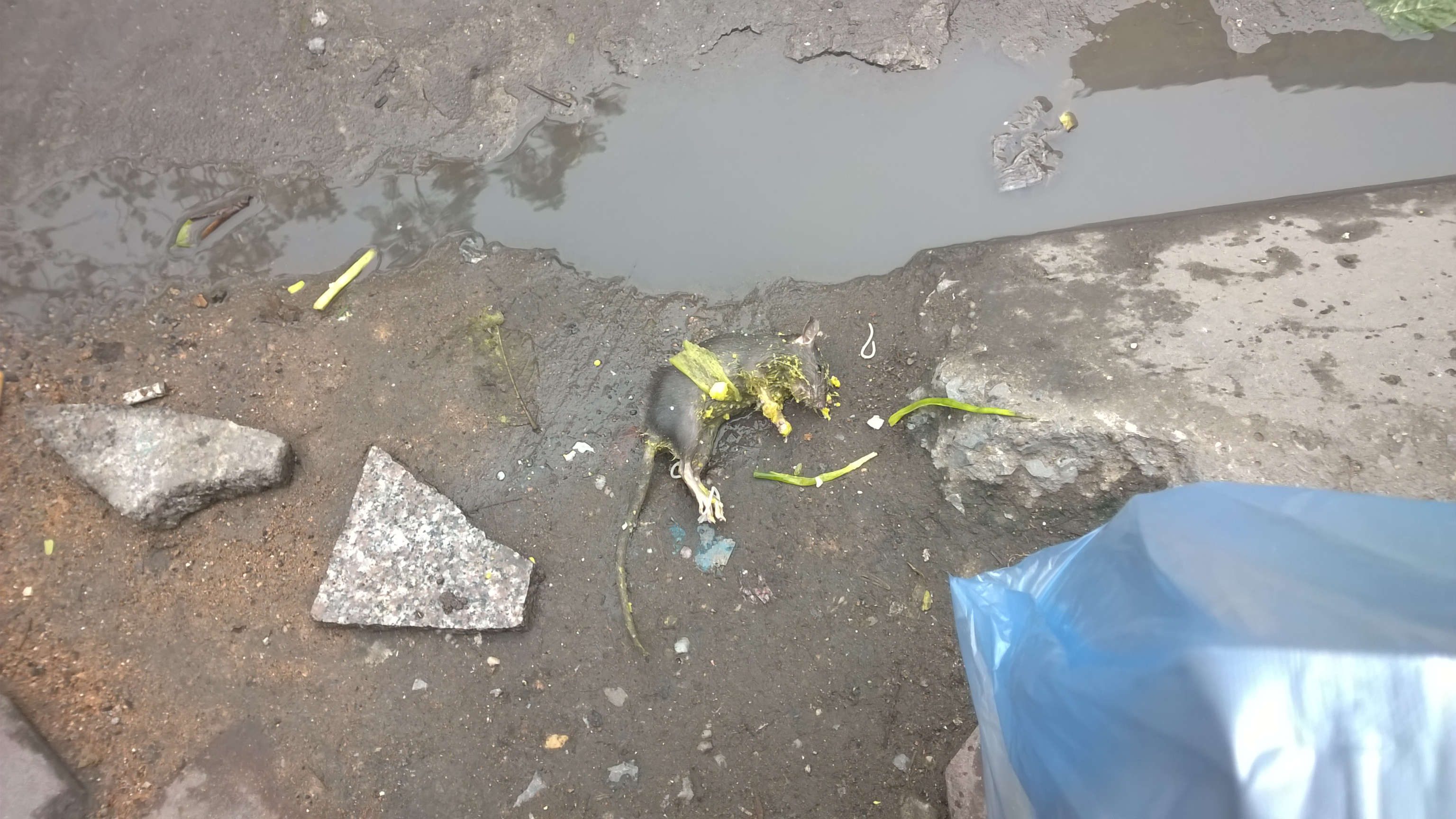 A street rat lying on the ground in Hanoi.